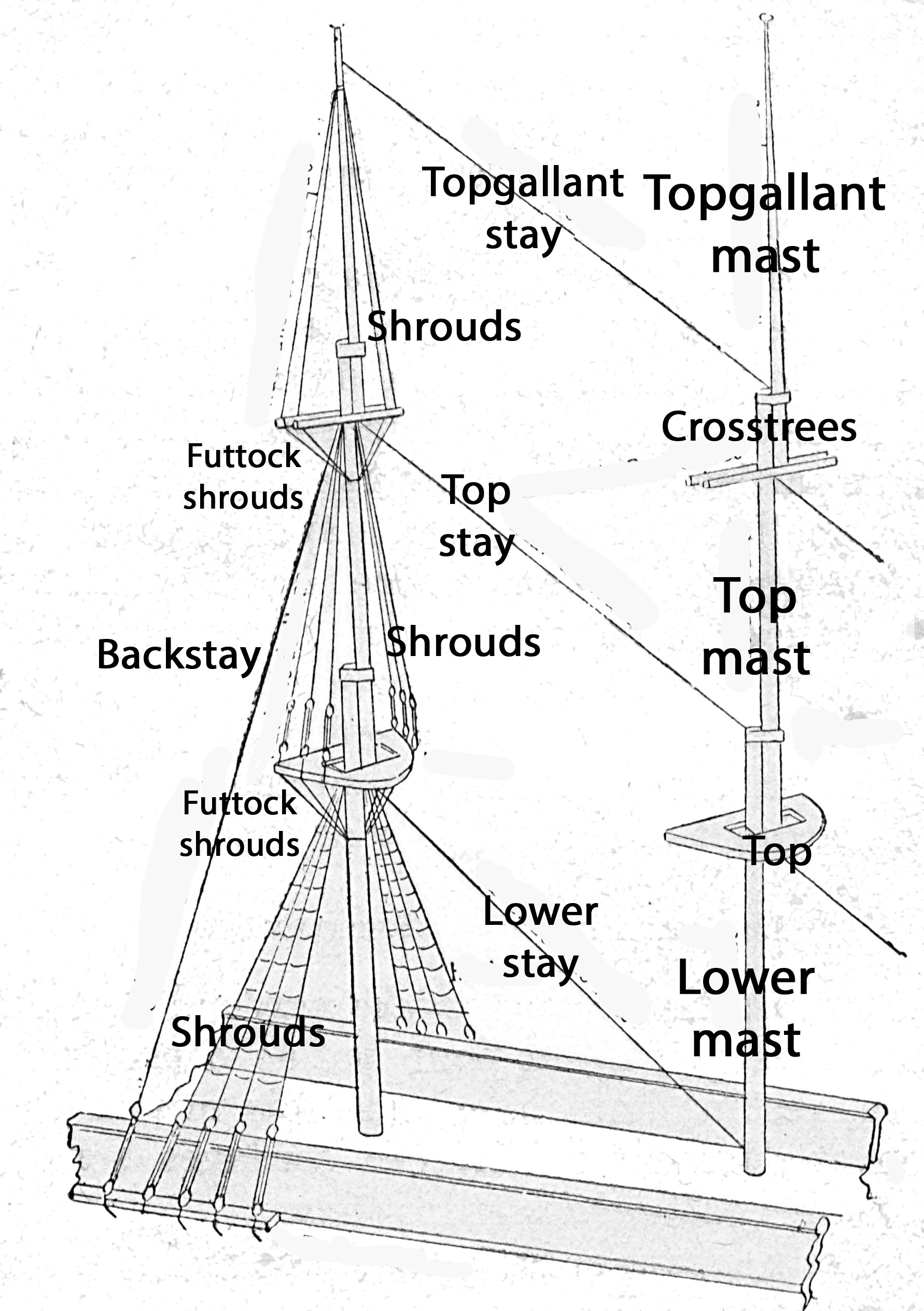 Drawing of standing riggings - Schéma des manœuvres dormantes. Extrait de livre de 1898 - from Book 1898.